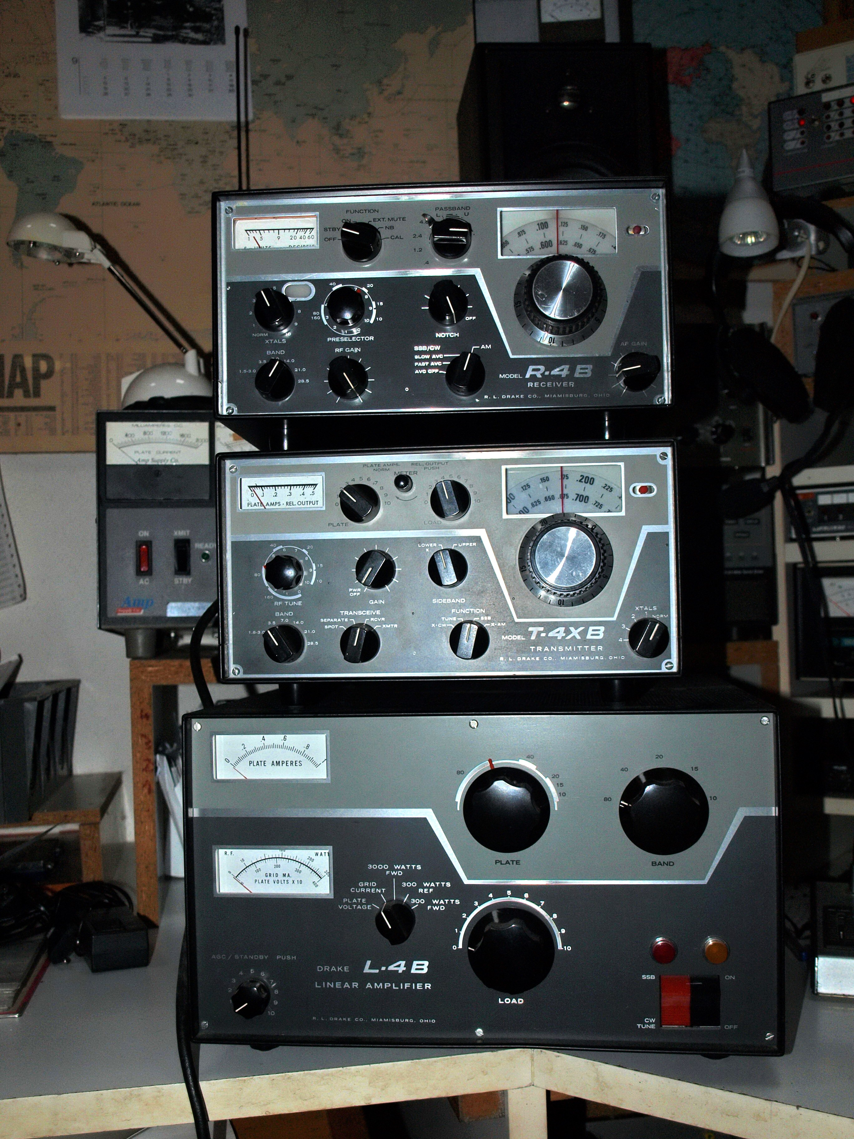 Radio Amateur Receiver-Transmitter with 1 kW Power Amplifier